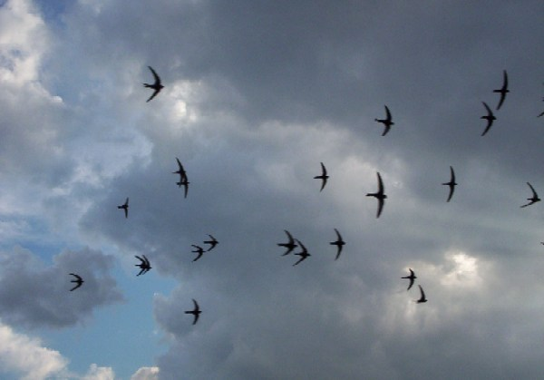 Common Swift (Apus apus) on city's sky in Żyrardów (Poland, Masovia).